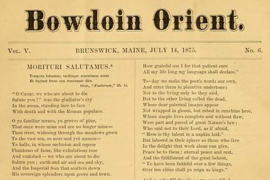 An 1875 edition of the Bowdoin Orient, the school newspaper of Bowdoin College. This edition features "Morituri Salutamus," a poem by Henry Wadsworth Longfellow.